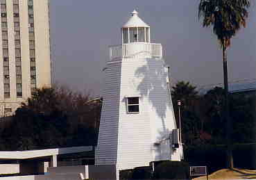 former Anorizaki Lighthouse, formerly at Shima, Mie, now located at the Museum of Maritime Science in Tokyo.